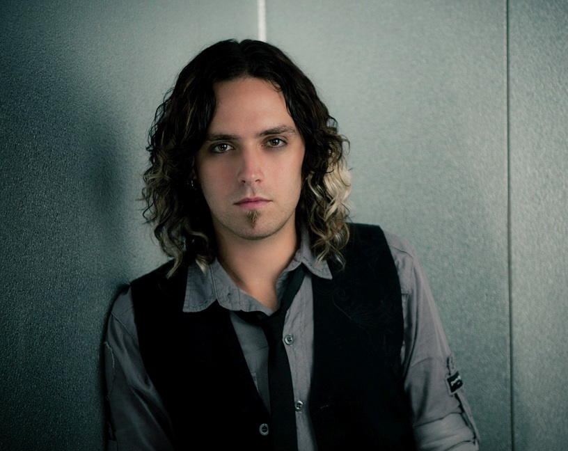 photo of Mike Ruocco